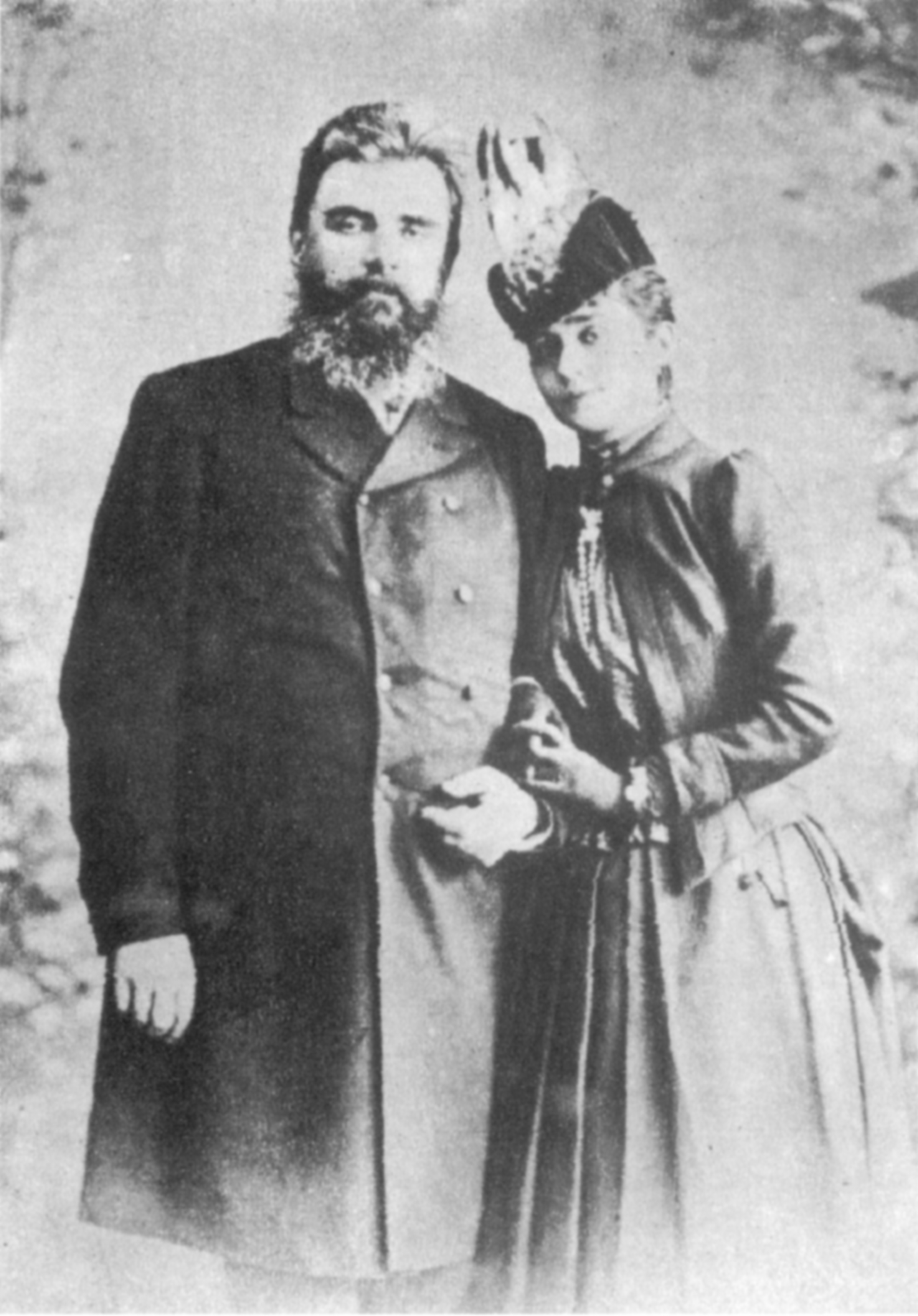 Guido Henckel von Donnersmarck (1830–1916) with his second wife Katharina Sleptsov (Polish Katarzyna Slepcow).